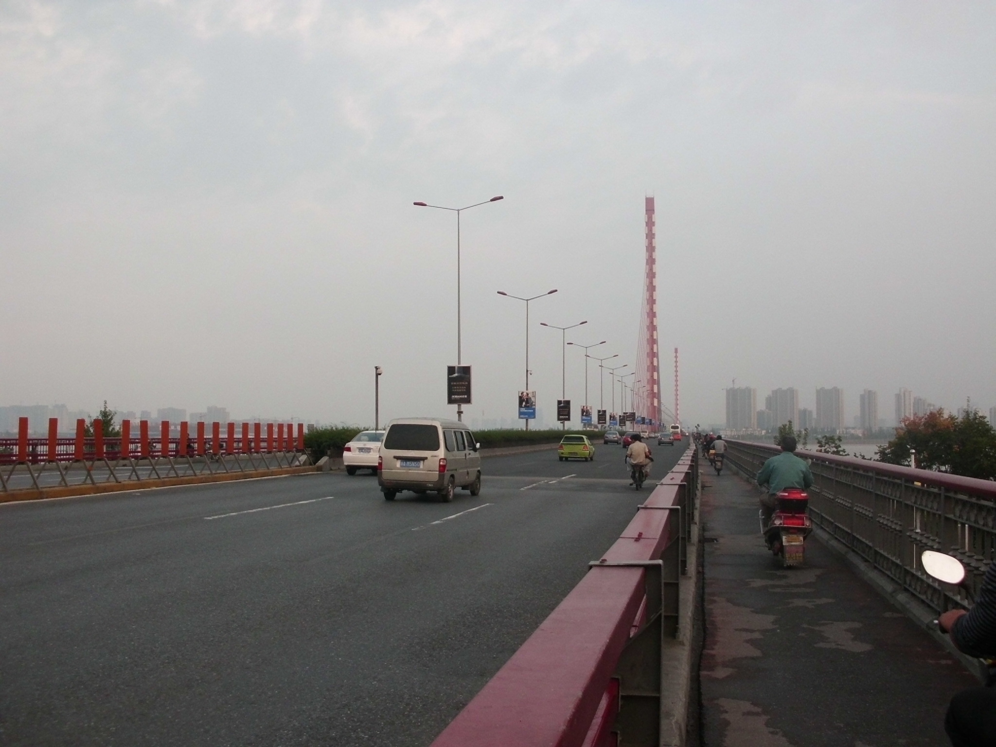 Third Qiantang River Bridge